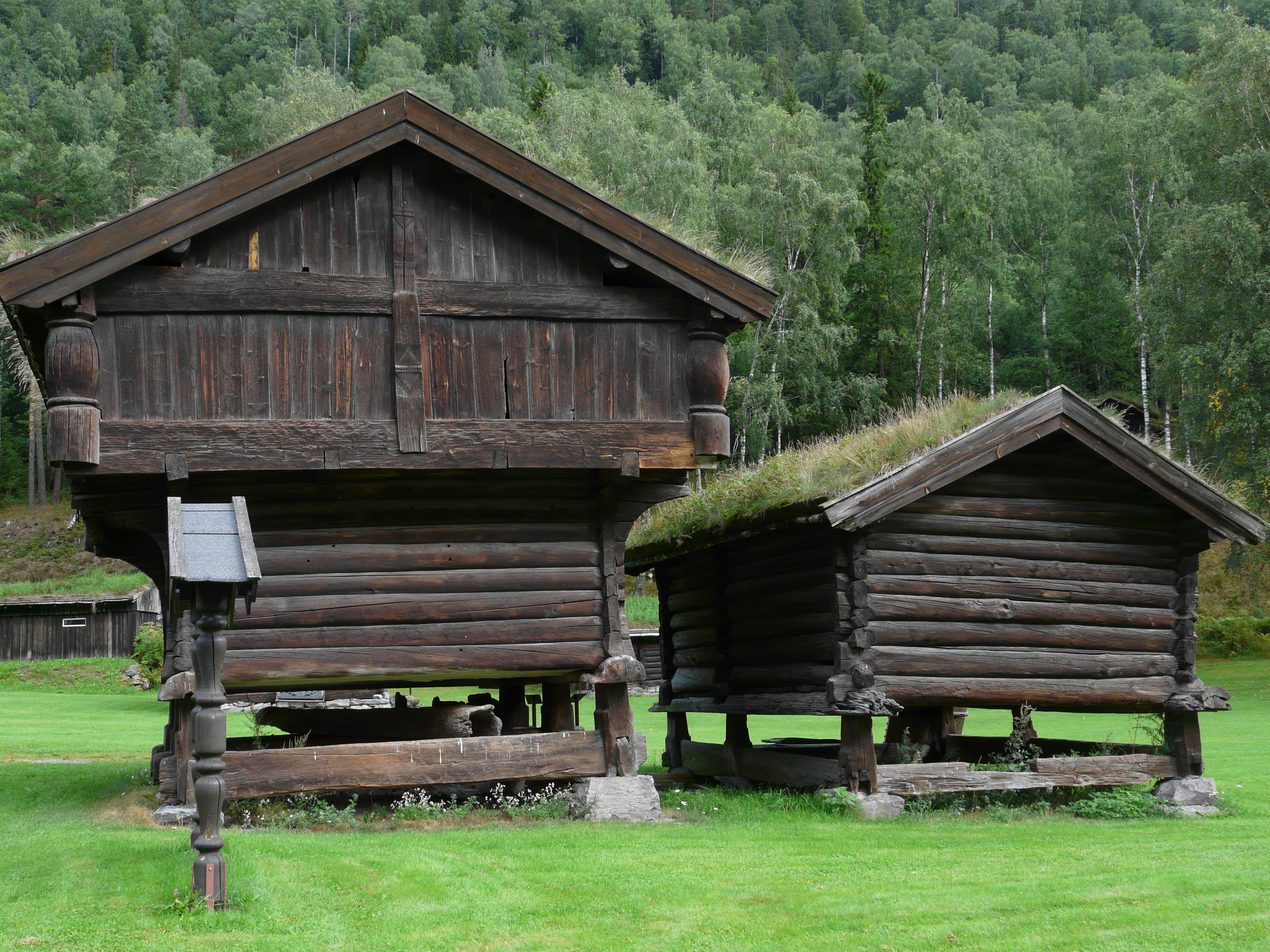 Tinn Museum, Rjukan